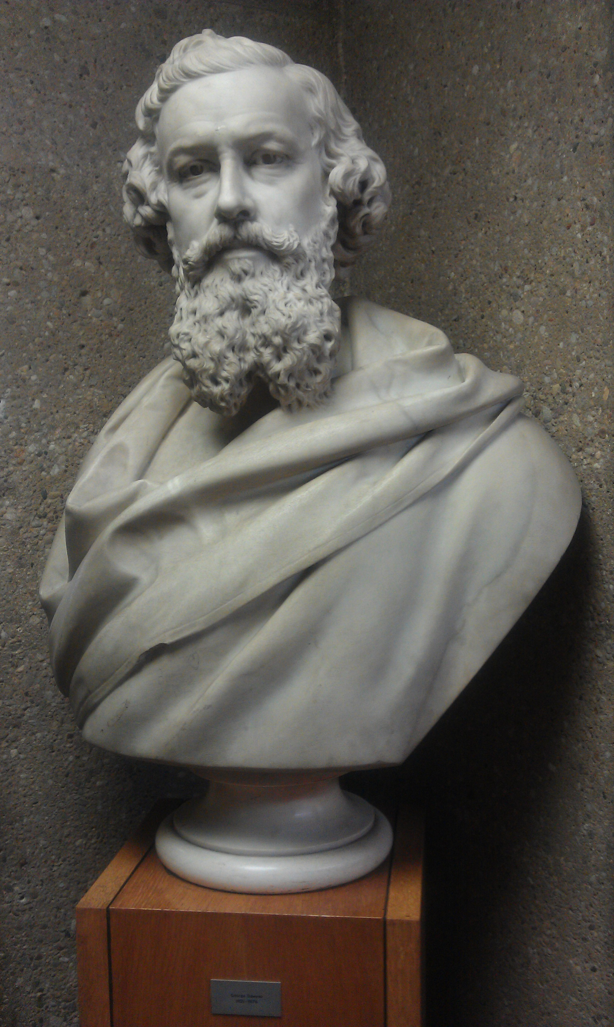 Bust of George Dawson, in Birmingham Central Library, Birmingham, England.